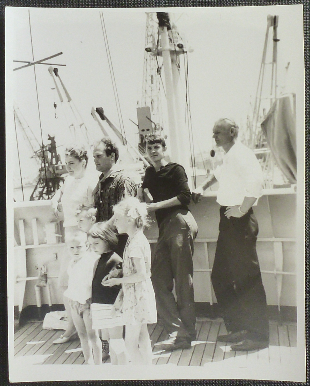 Crewmembers and their families on the upper bridge of Soviet Union cargo vessel "Metallurg Anosov".